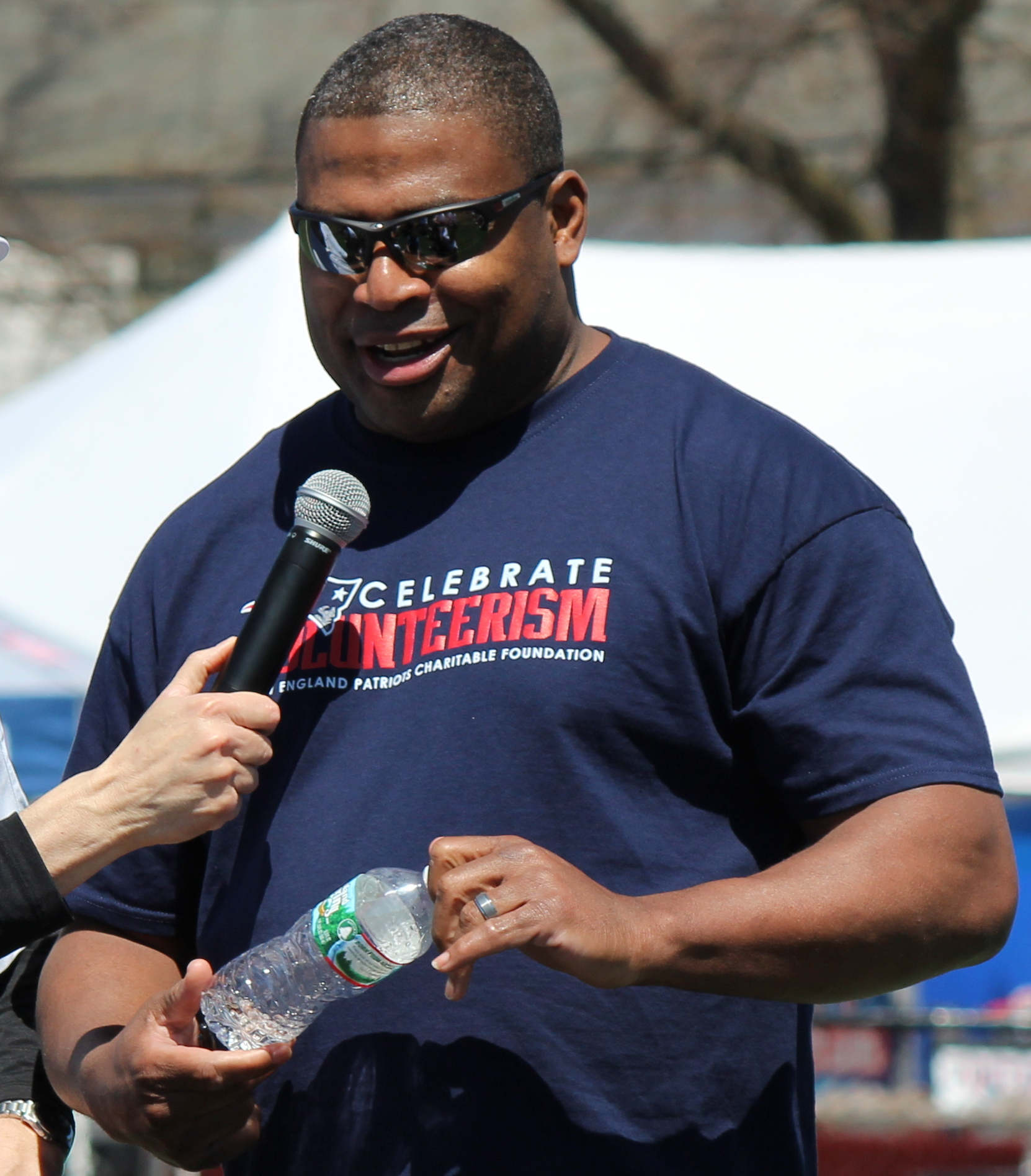 Chuck Wilson interviews Bob Perryman in Lawrence, Massachusetts in 2015.